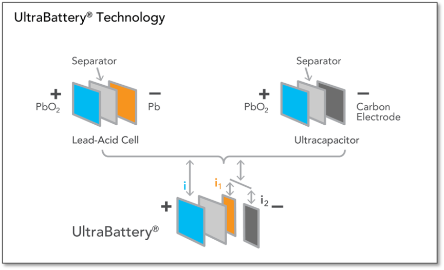 An image describing the functioning and technology behind an UltraBattery.